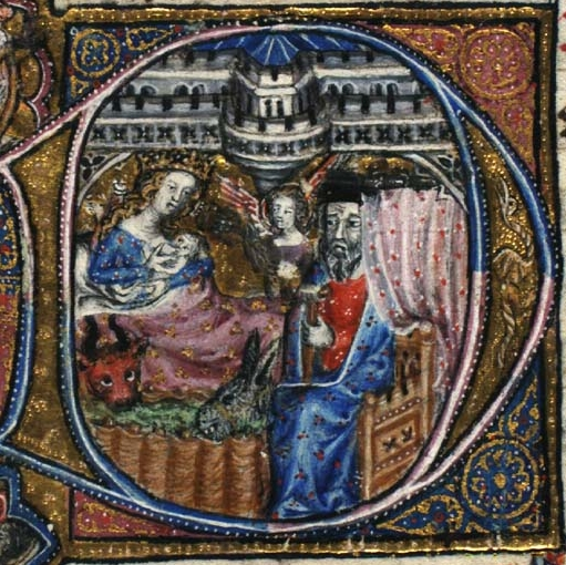 Mary feeding the infant Jesus: initial from Copenhagen MS Thott. 547 4o